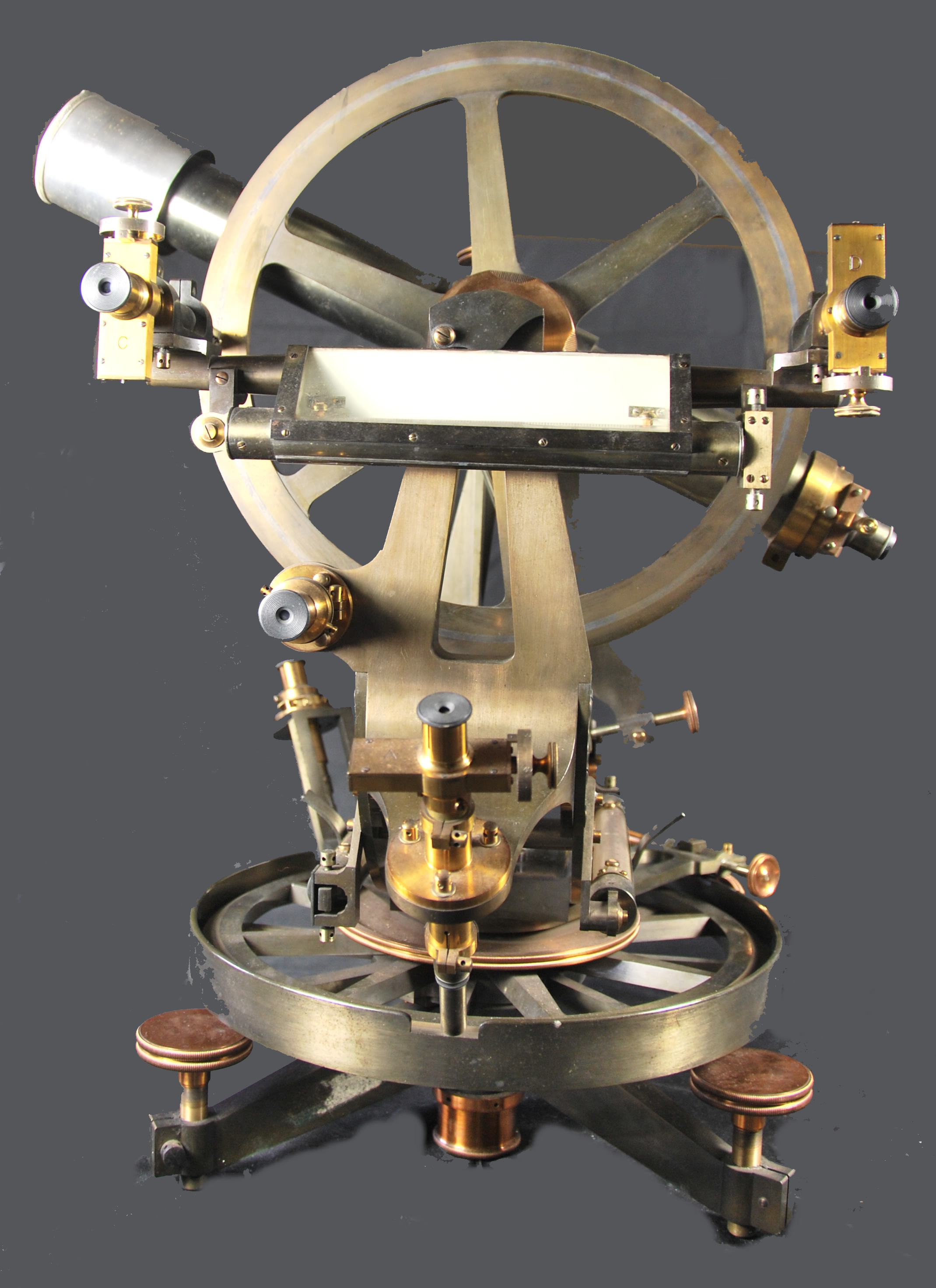 This file was uploaded as part of a GLAMWiki partnership with Paisley Museum. You can find out more on the Museums Galleries Scotland project page. This tag does not indicate the copyright status of the attached work. A normal copyright tag is still required. See Commons:Licensing.